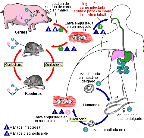 Trichinella spp. cycle of life (trichinellosis cycle). Labels in Spanish.